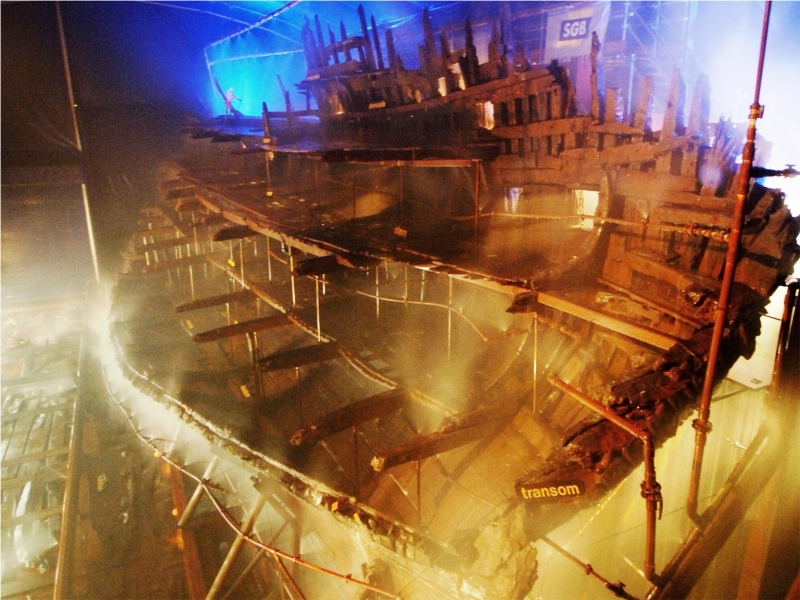 The Tudor period carrack Mary Rose under going conservation with polyethylene glycol at the Historic Dockyard in Portsmouth, United Kingdom.